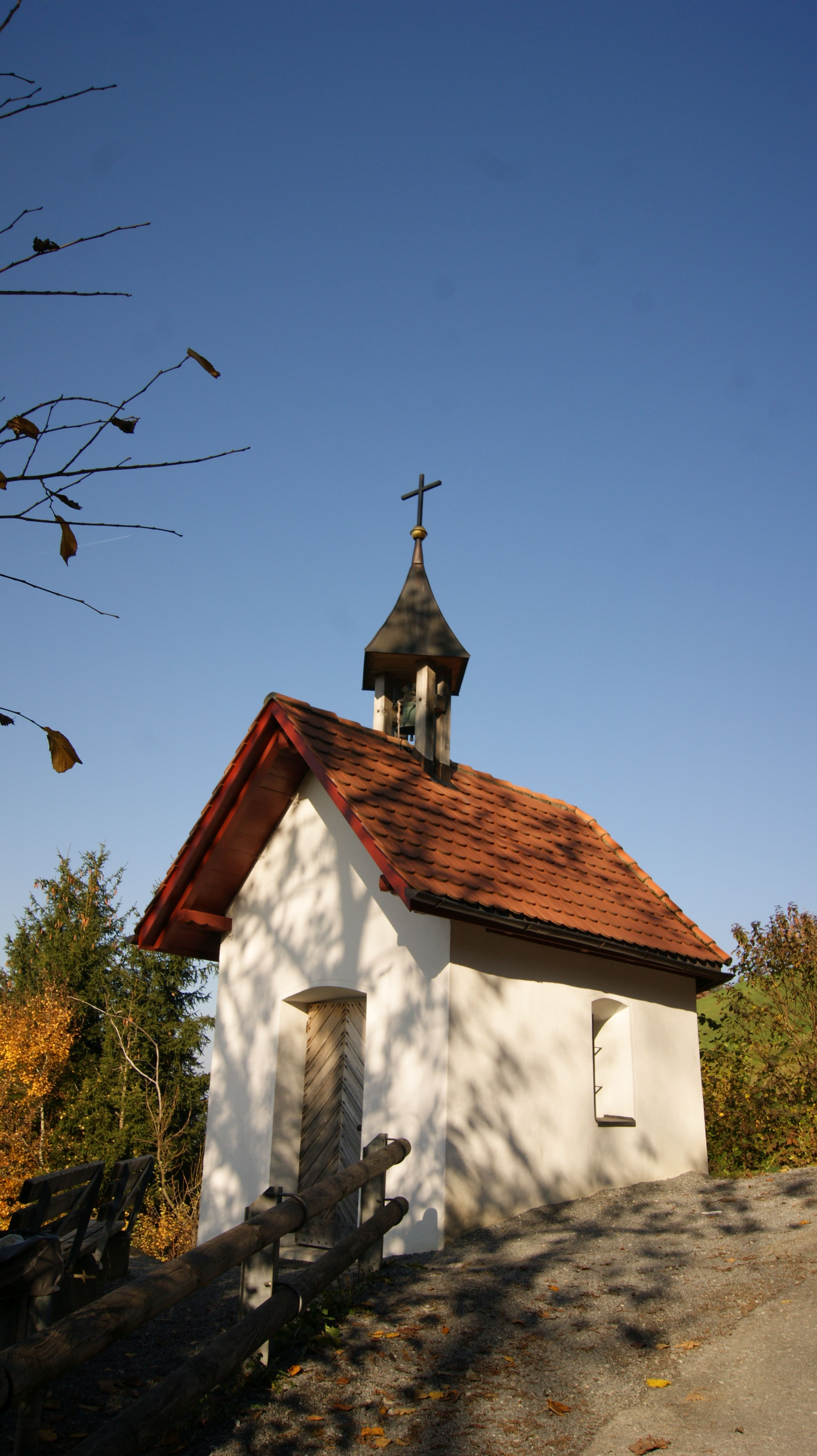 Bürgle chapel in the local centre Bürgle in Dornbirn, Vorarlberg, Austria. View from the street, from south.